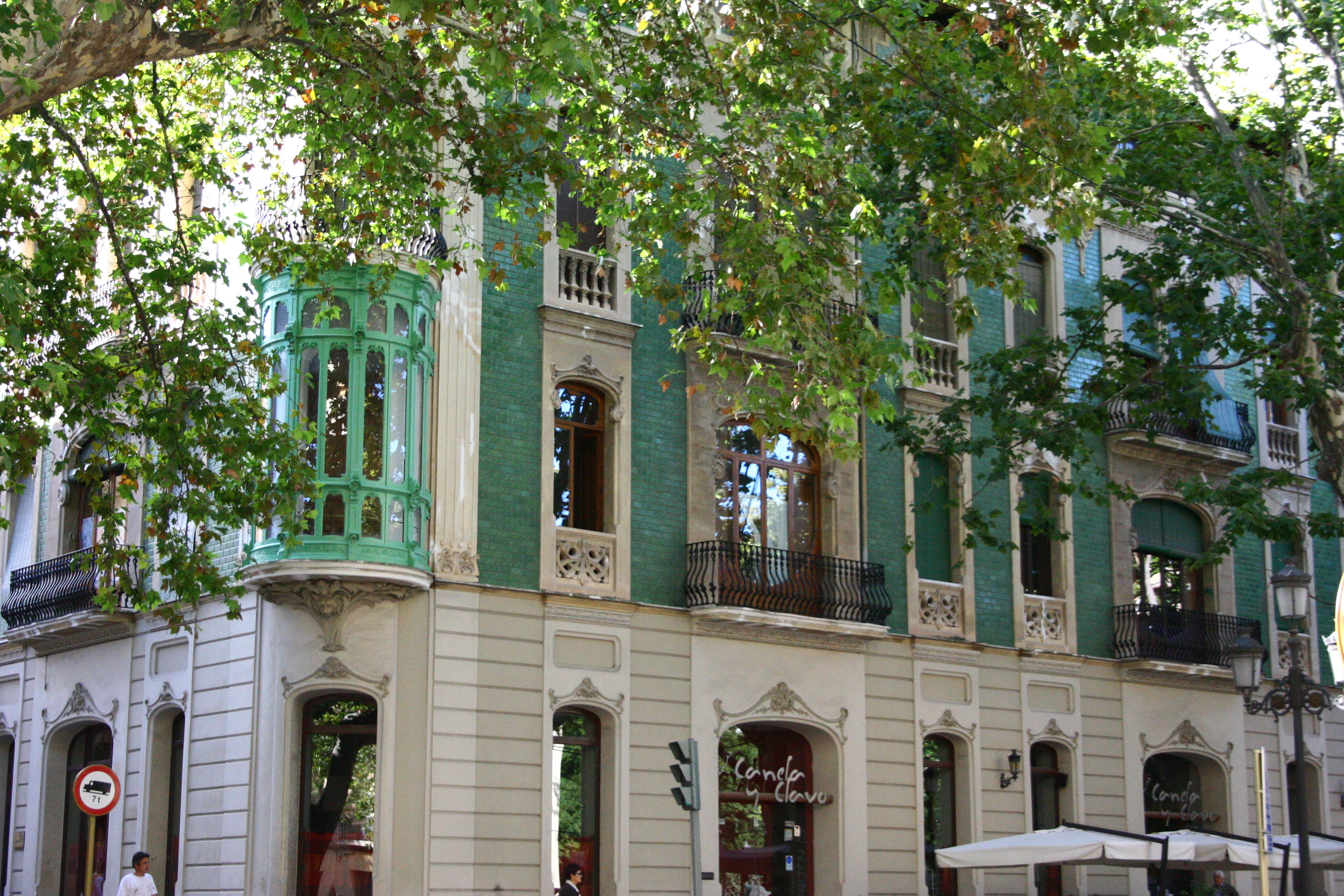 Edificio Botella. Modernist Building from 1906. Xàtiva